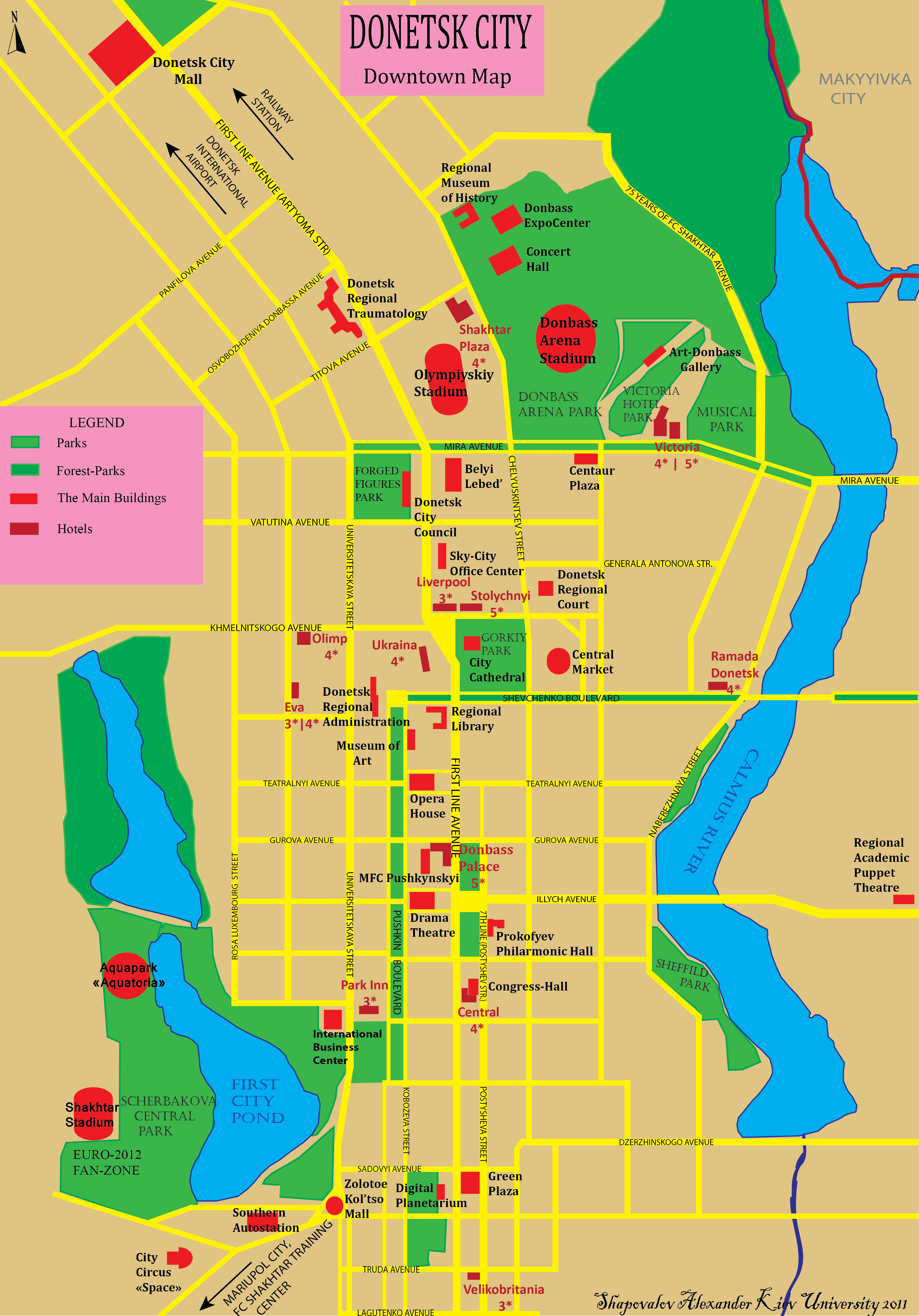 Map of Donetsk Downtown